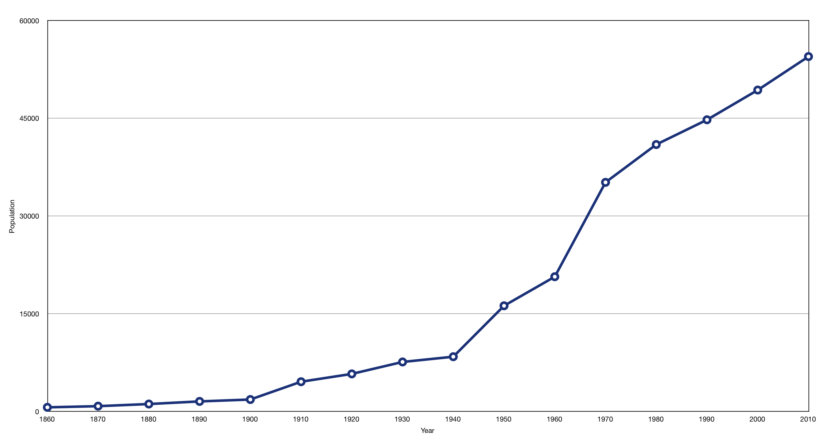 Corvallis' population, Oregon, (1860-2010).